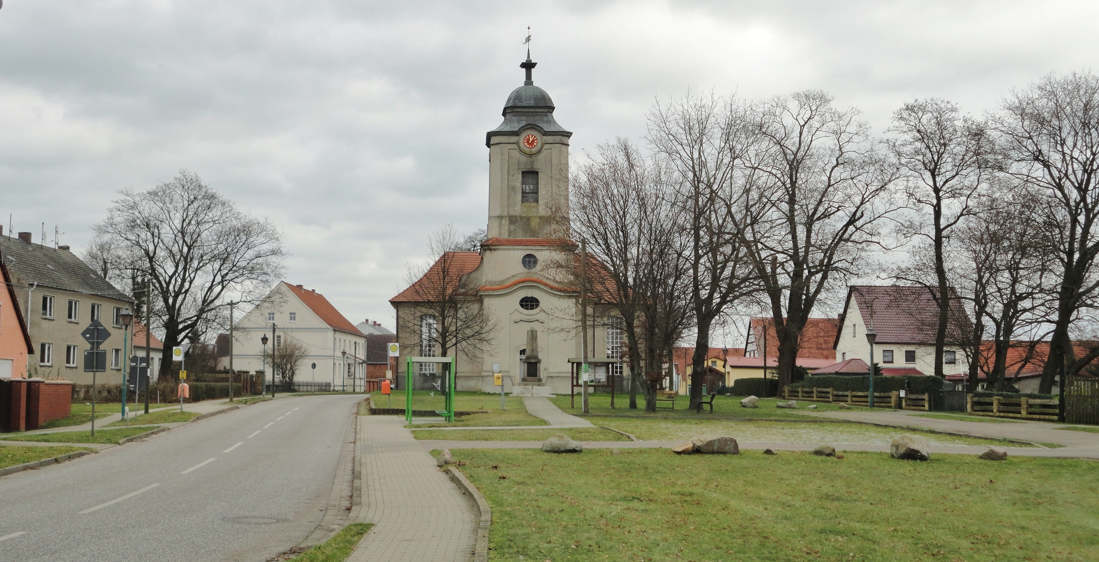 Western panoramic view of church of Brunne, Fehrbellin municipality, Ostprignitz-Ruppin district, Brandenburg state, Germany Object location52° 46′ 22.53″ N, 12° 43′ 46.4″ E